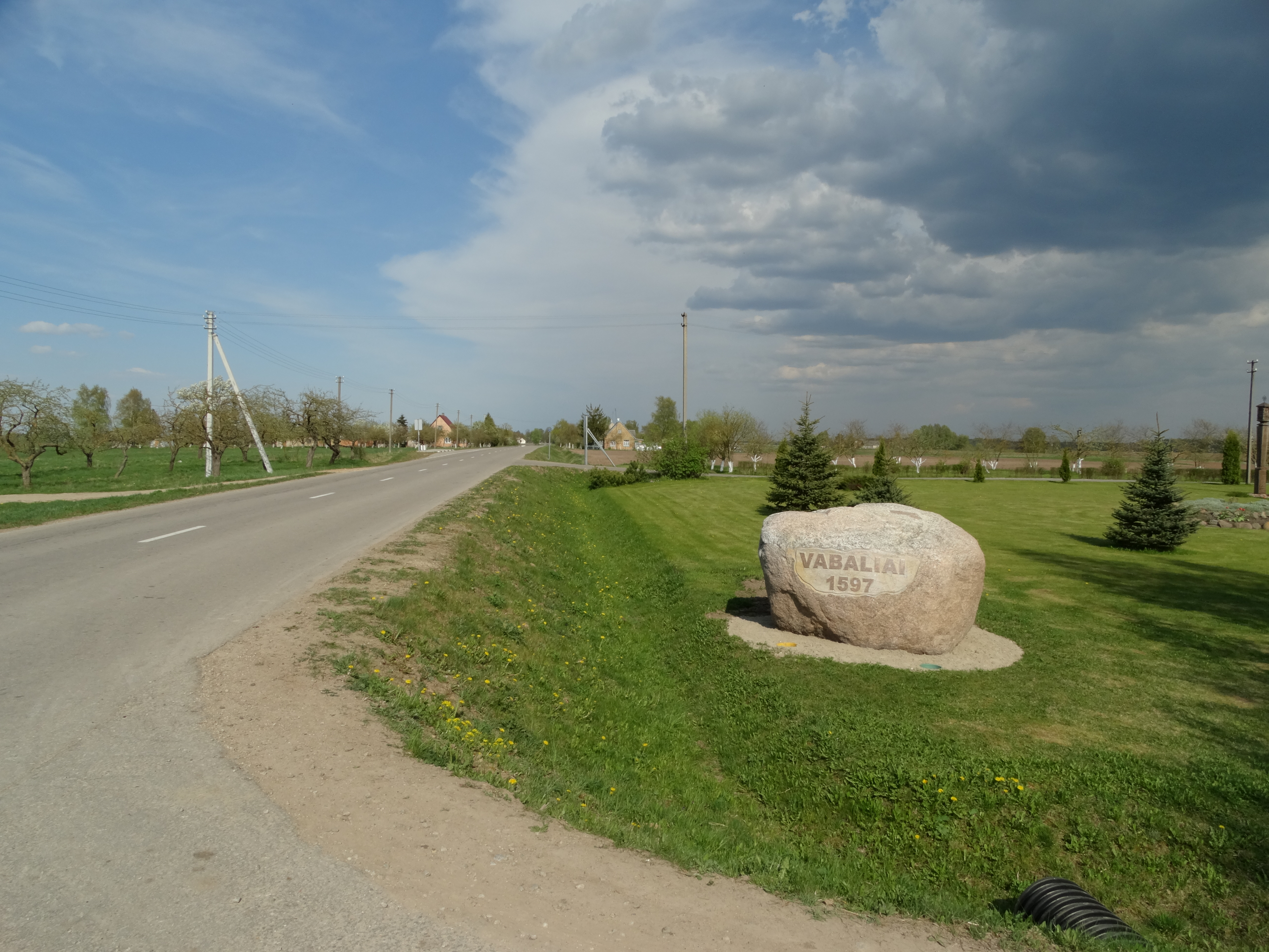 Vabaliai, stone, Radviliškis District, Lithuania